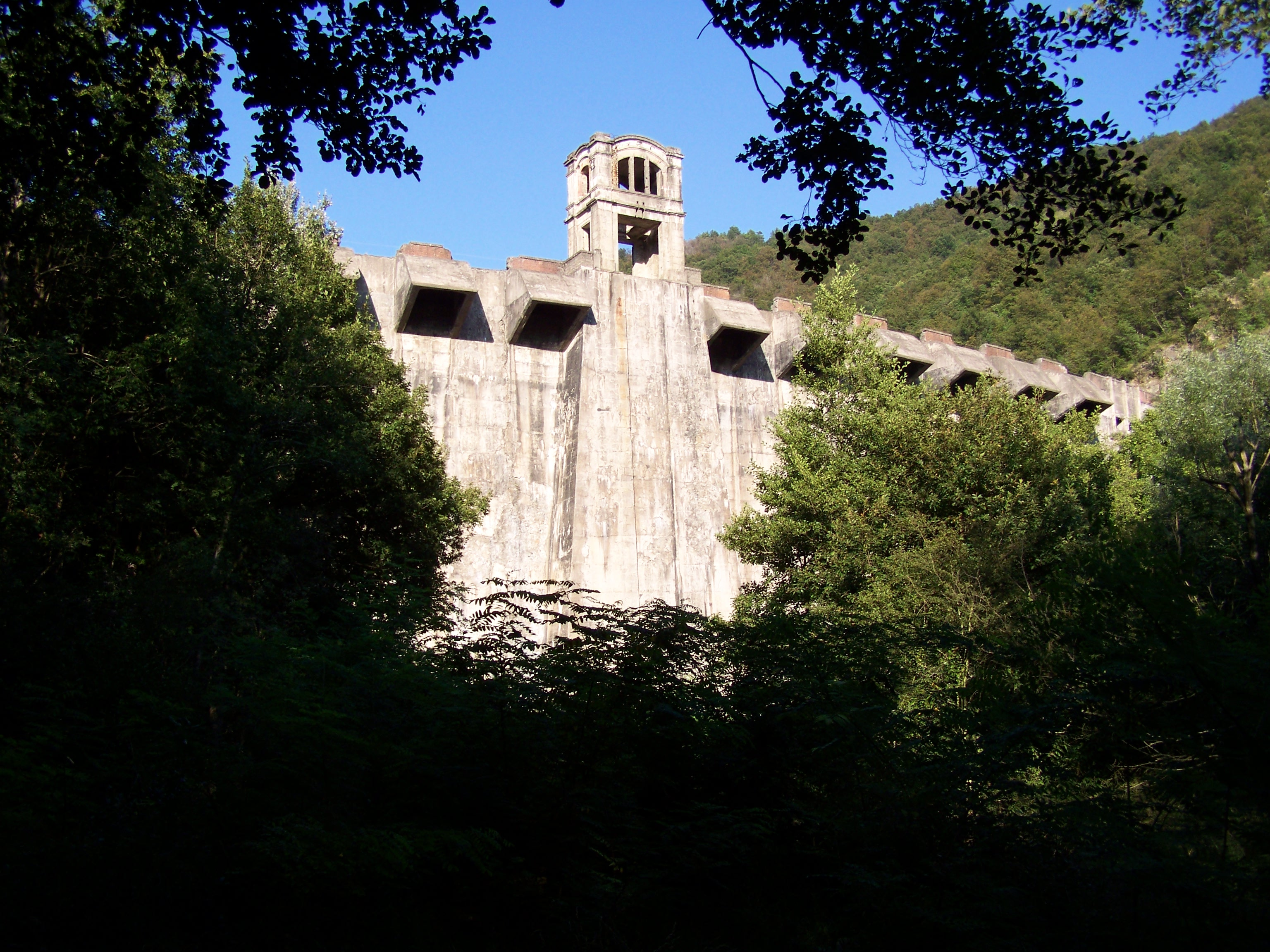 an ancient dyke